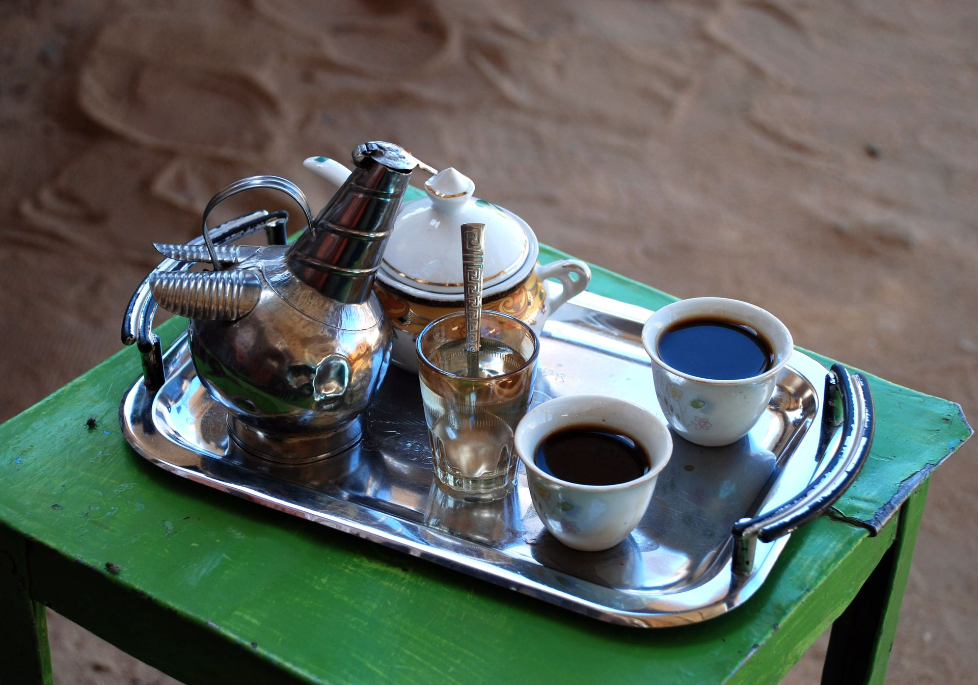 Jabana, plate with coffee pot, Sudan